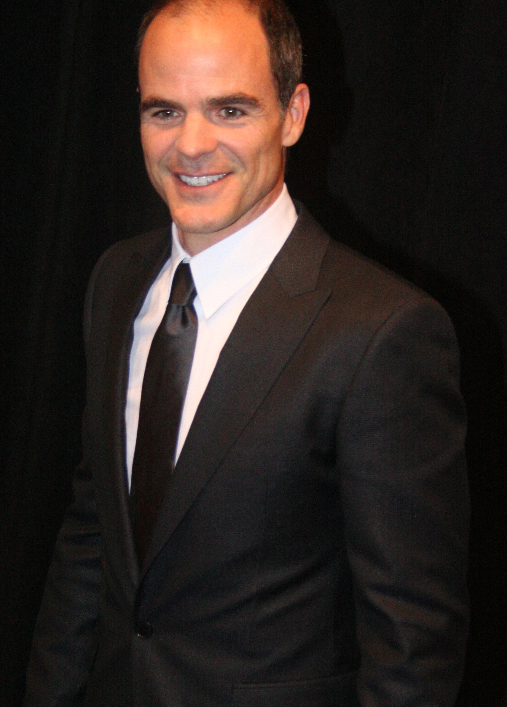 Michael Kelly at the film premiere of The Adjustment Bureau in Ziegfeld Theater, New York City in February 2011.